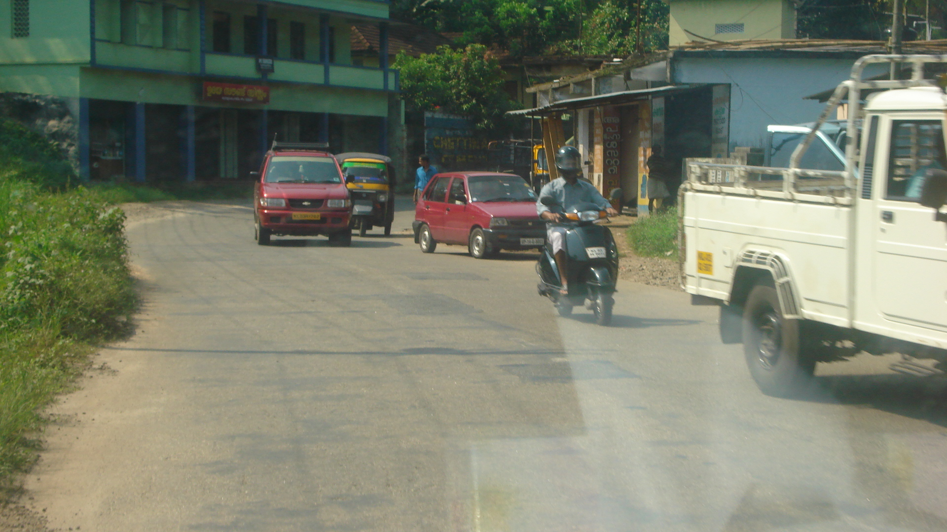 Kpoika Jn